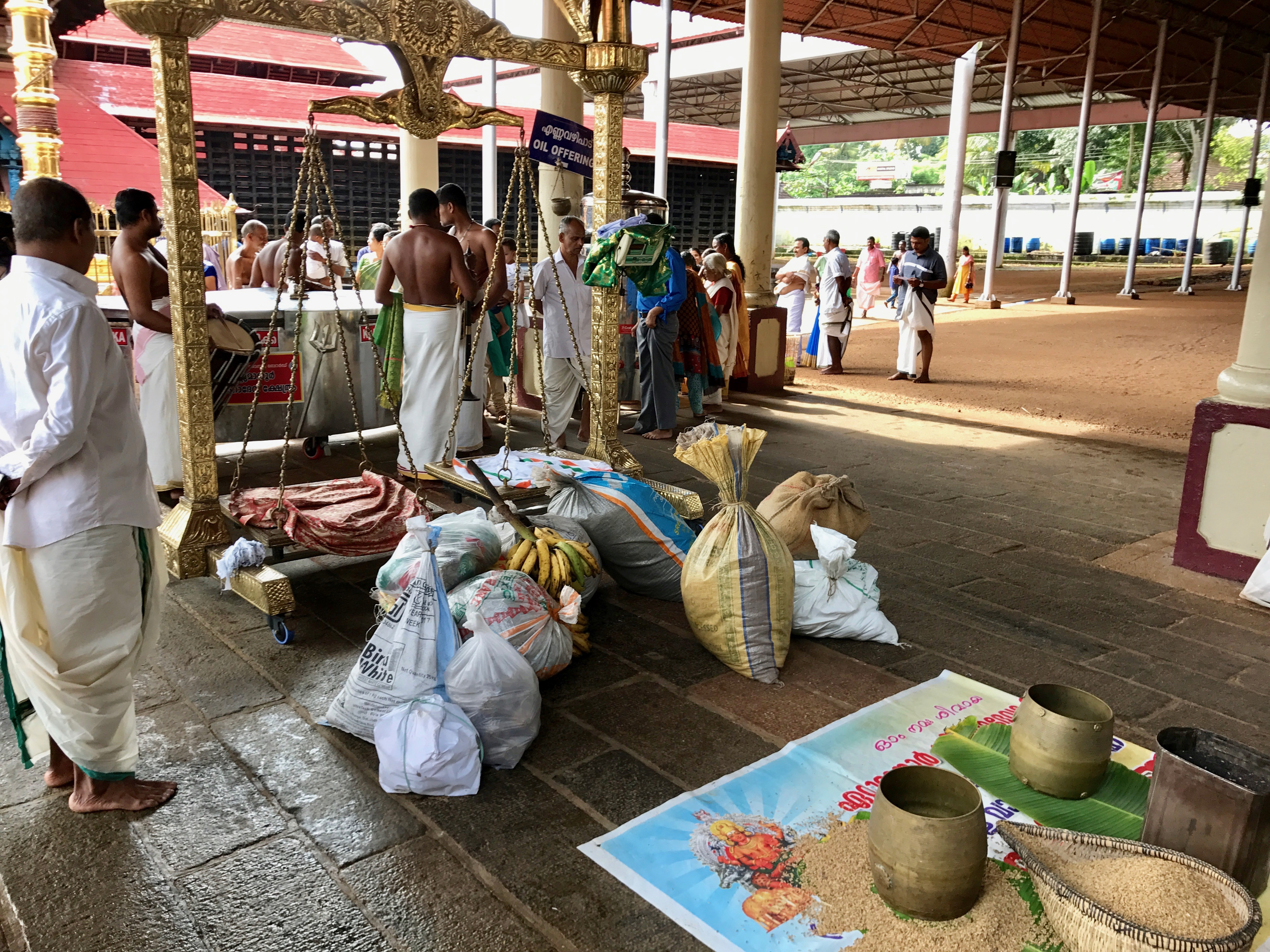 The Ettumanoor Mahadeva temple is a major Hindu temple in Kerala, a site for weddings and rites-of-passages of Hindu families. The temple roadside entrance has a Nataraja (dancing Shiva), has a mandala for social events such as performance arts, a dedicated place facing the garbha-grihya (inner sanctum) for Hindu rites of passage, a balance for donations (tula dana), a free community kitchen to feed the needy and visitors (anna dana). A tula dana is one of many forms of charity (Dāna) described in Hindu texts. The donor sits on one side of the balance, while on the other he gives away a donation equal to his or her weight. Sometimes the donation is given to mark the birth of a baby, in which case a donation equal to the baby's weight is given to charitable cause. The donation typically consists of grains, fruits or other food, or clothes, or handicrafts or jewelry.